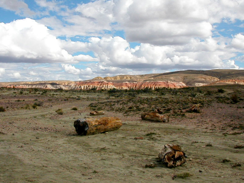 Petrified wood from the Cretaceous-Paleogene of Chubut, Argentina